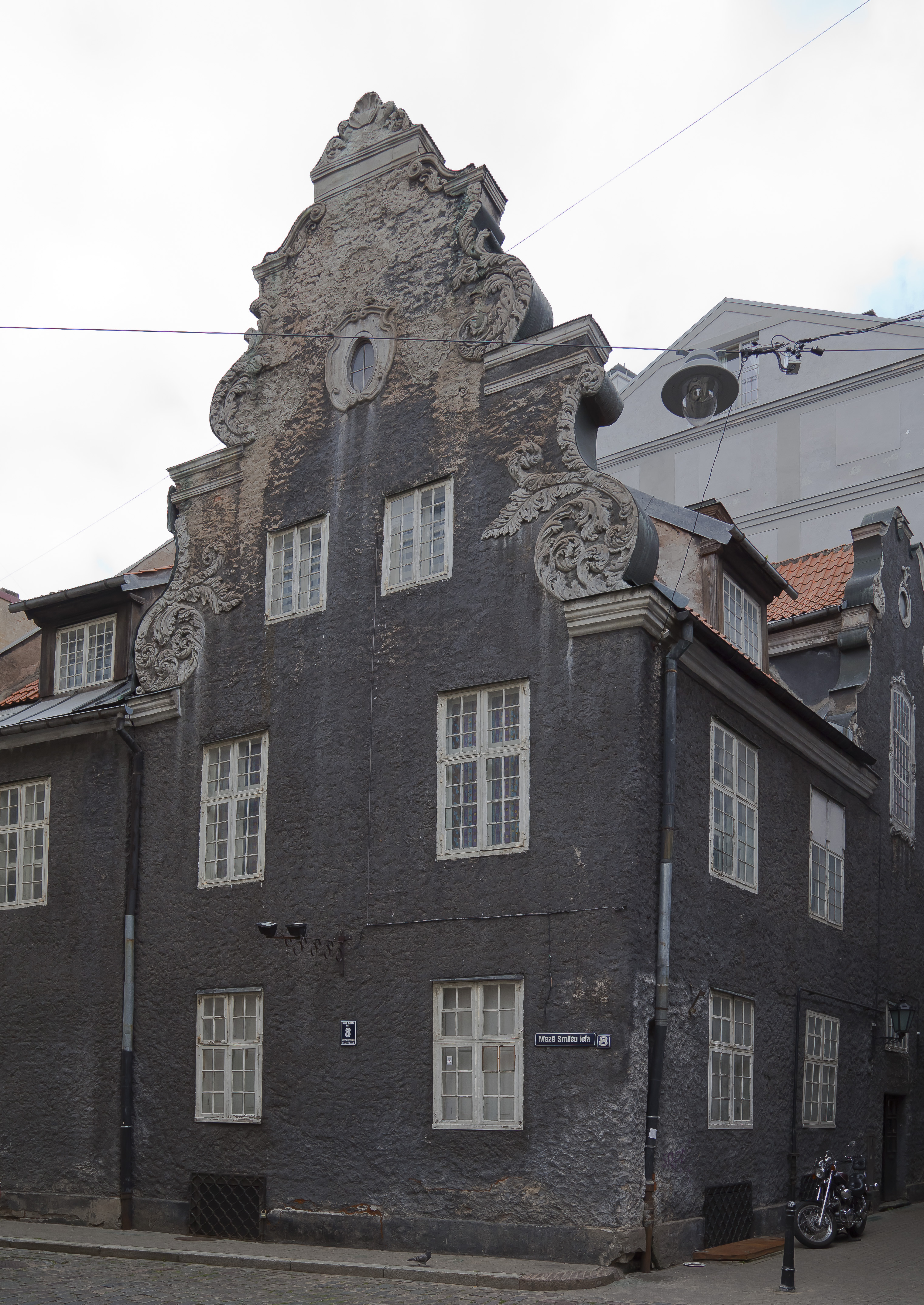 Building in Maza Smilsu iela, Riga, Latvia